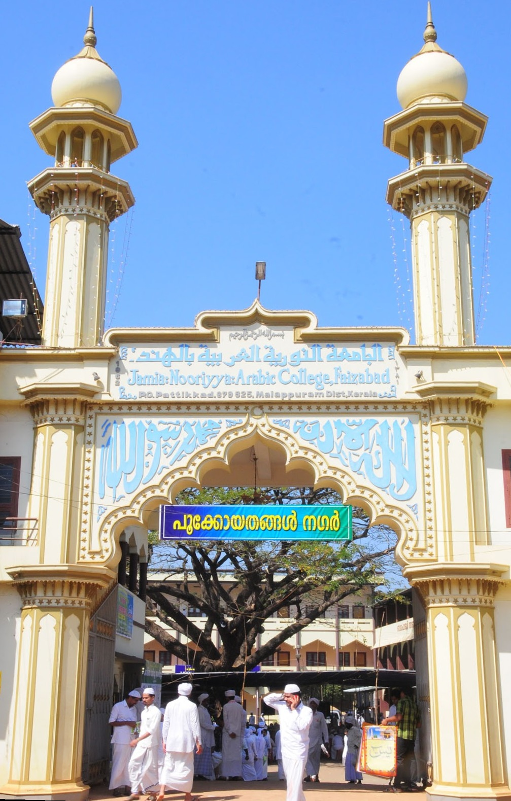 Jami'a Nooriyya Arabiya, Pattikkad